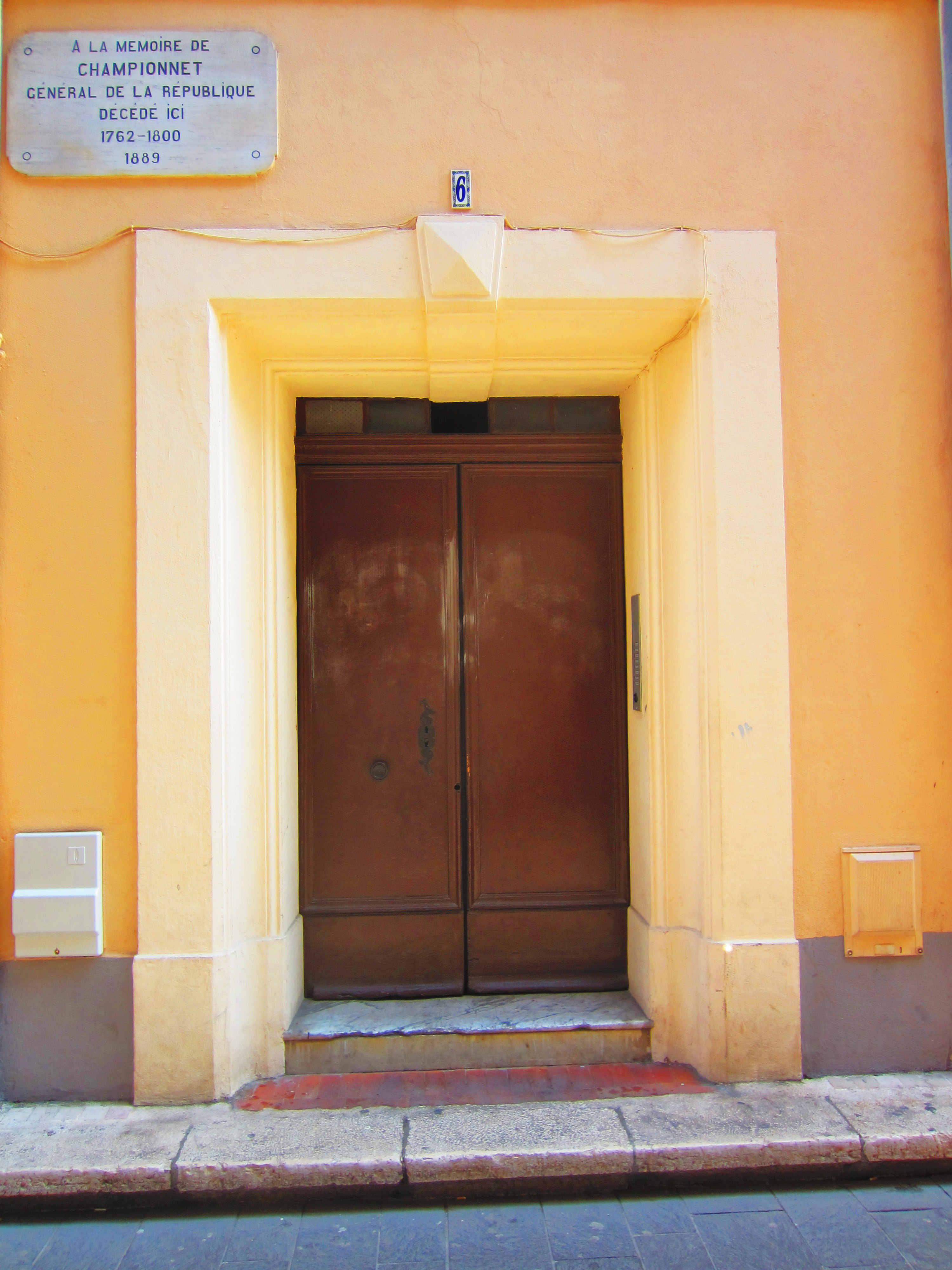 championnet house Antibes